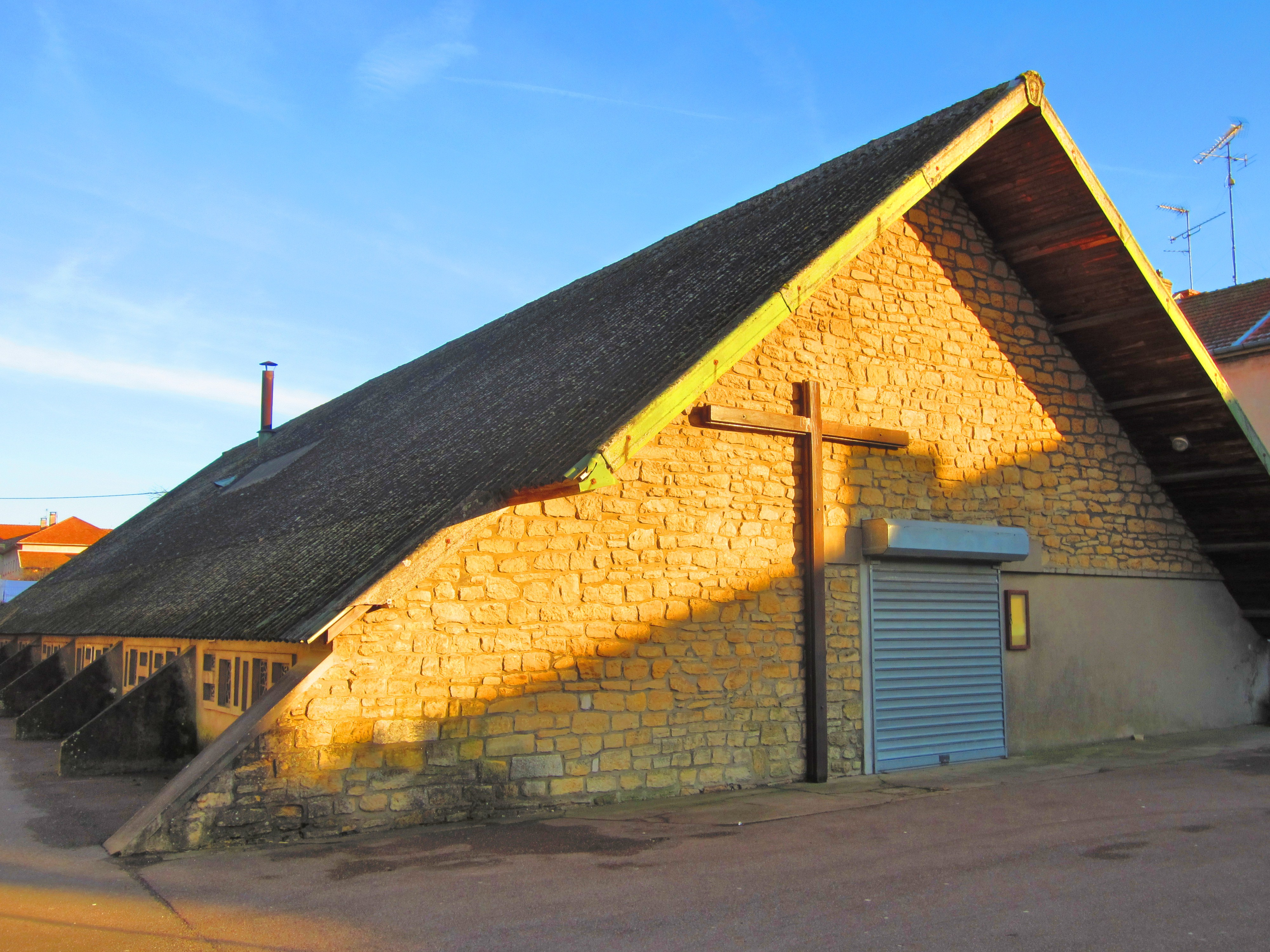 chapel ste barbe Bouligny